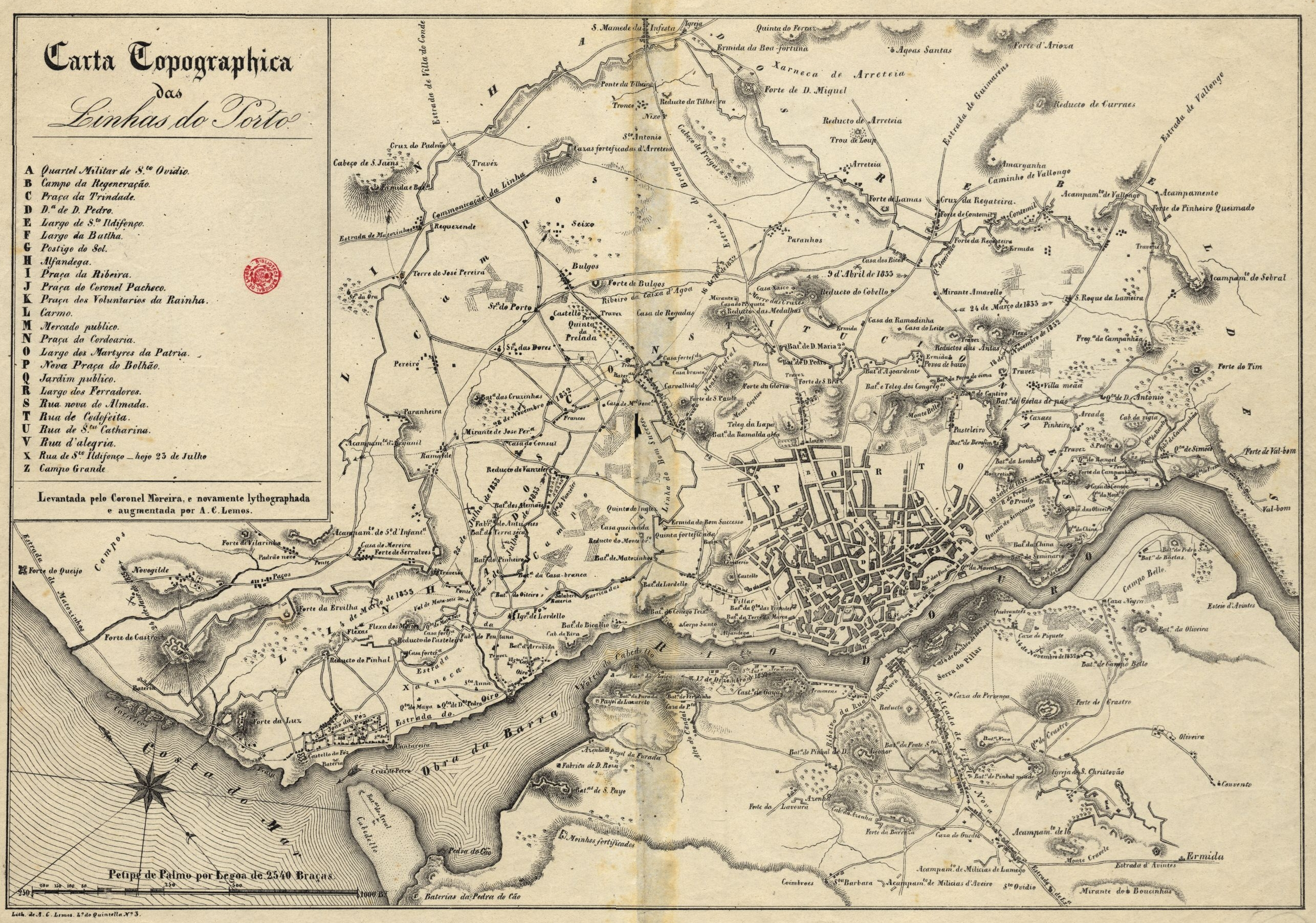 Topographic map of "Linhas do Porto", Siege of Porto, Liberal Wars